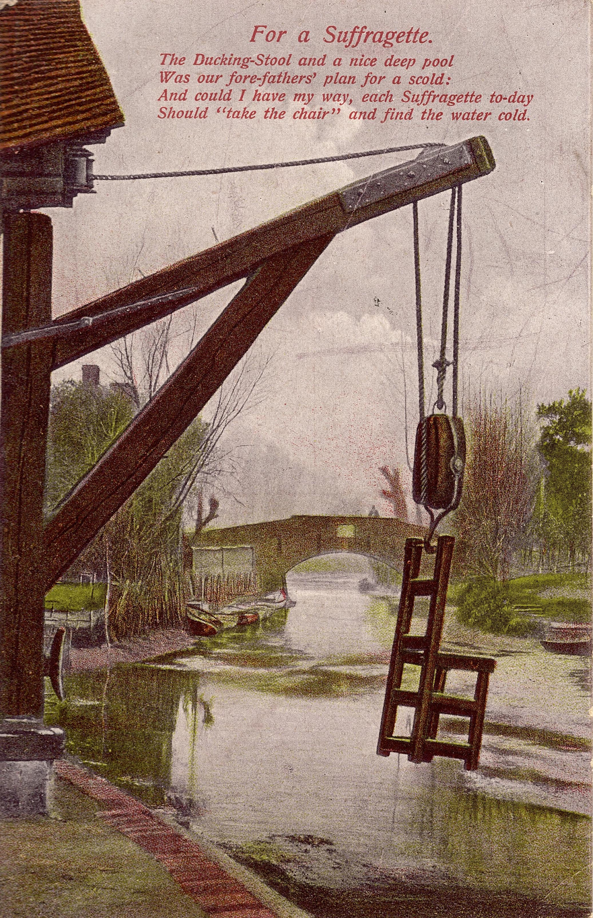 twl 2004 1011 13 depicts a ducking stool Fordwich, near Canterbury